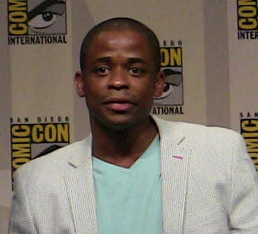 Dulé Hill - Comic-Con 2009 - "Psych" Panel - San Diego - July 23, 2009